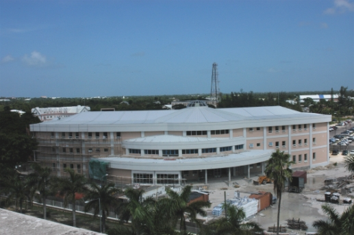 Library building — College of The Bahamas School of Nursing and Allied Health.